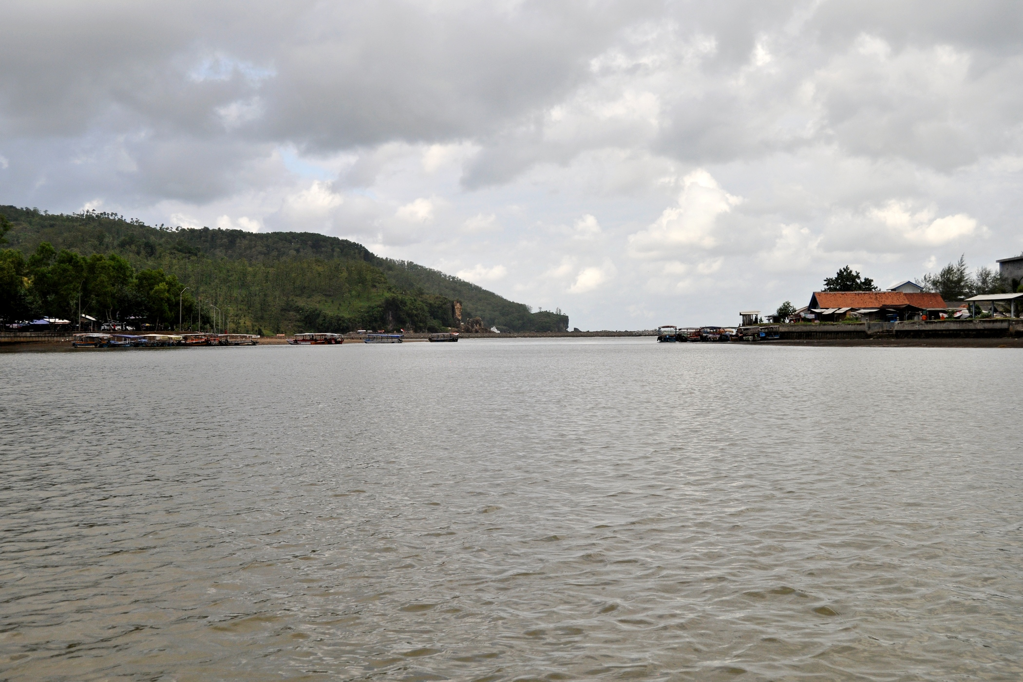 Bodo river near its estuarine in Ayah, Kebumen Regency, Central Java.